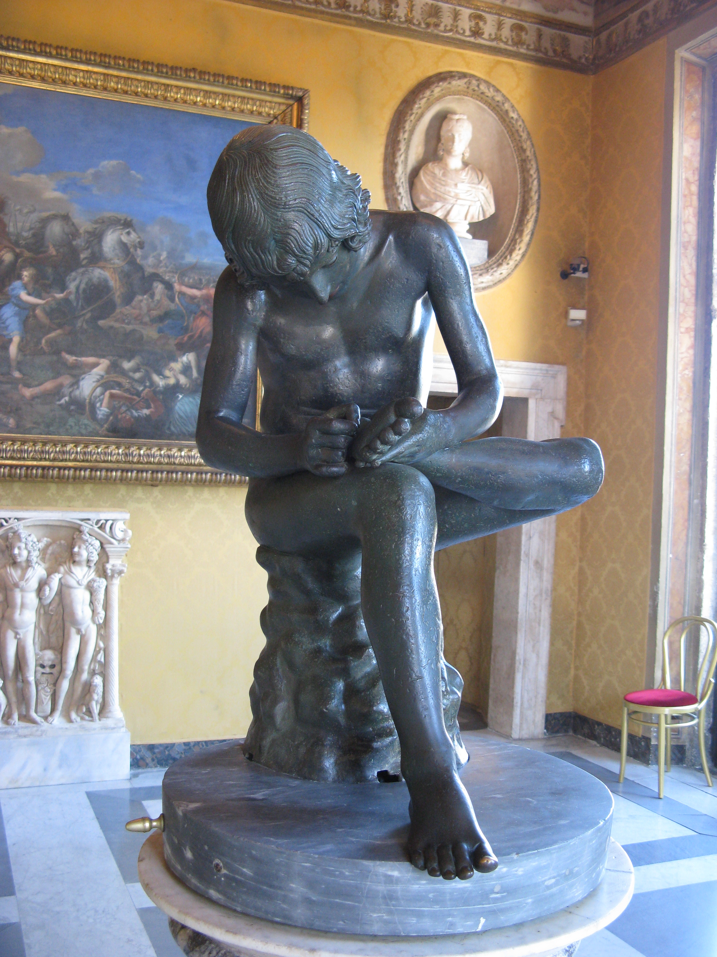 The Spinario or Thorn-Puller is a Greek bronze of the 1st century BC after classical and hellenistic models. Formerly in the Lateran; now in the Musei Capitolini as a gift of Sixtus IV, 1471